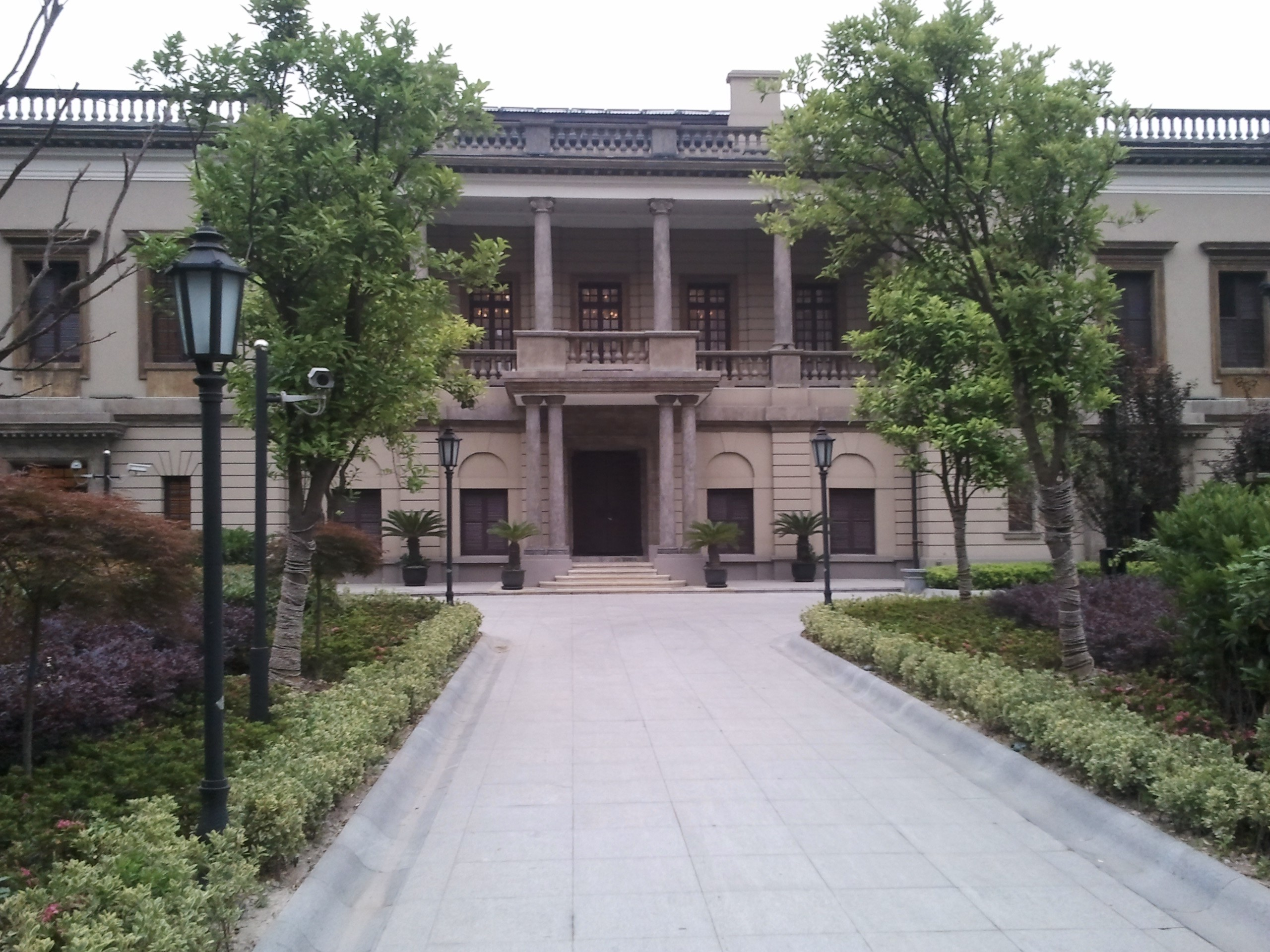 Photo of the former British Supreme Court for China Building in the old British Consulate Compound in Shanghai